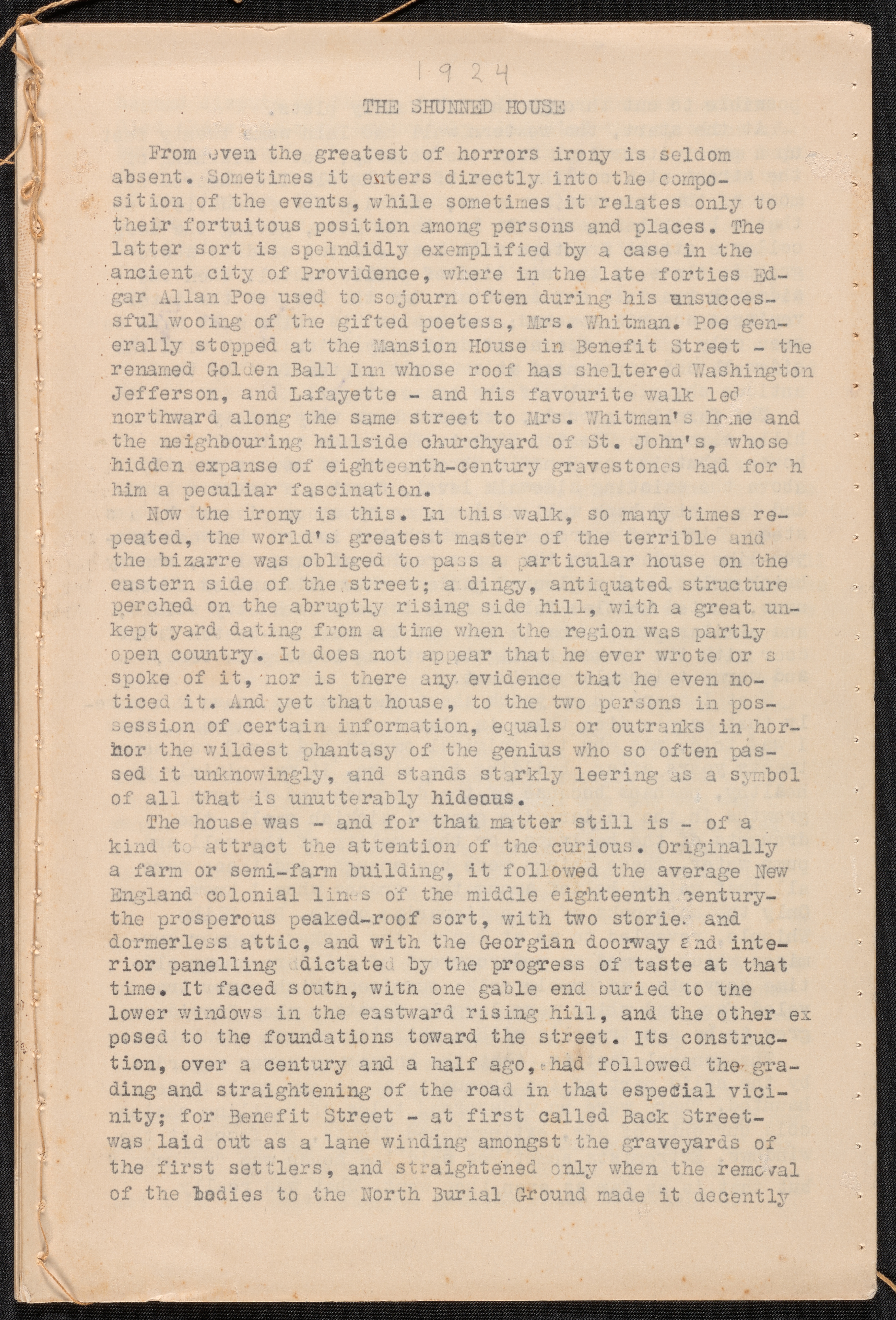 First page of the manuscript The Shunned House.